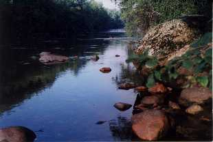 Snapshot of the Deerfield River, main stem, looking upstream at site DER-021 in Charlemont, just downstream of the Charlemont Waste Water Treatment Plant.